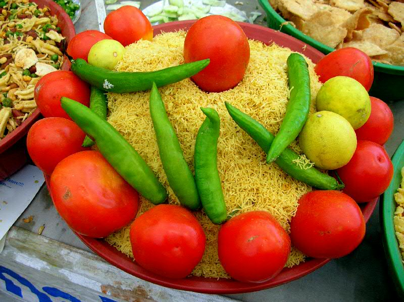 the bhelpuri pallette mela ground